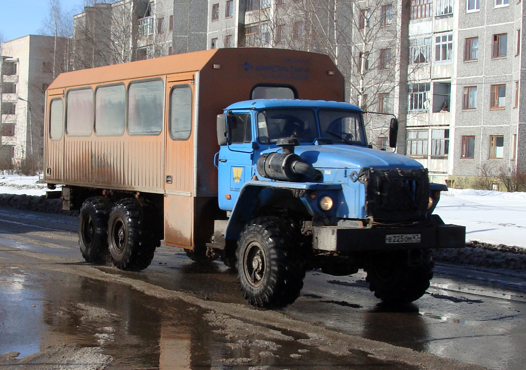 Off-road bus, Koryazhma